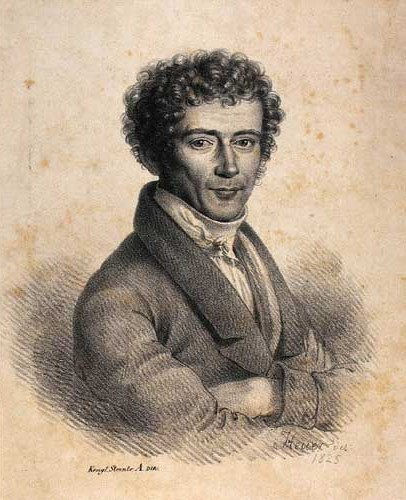 Conrad Frederik Clauson-Kaas (1782-1853), Danish army officer and Lord Chamberlain (Hofmarskal)